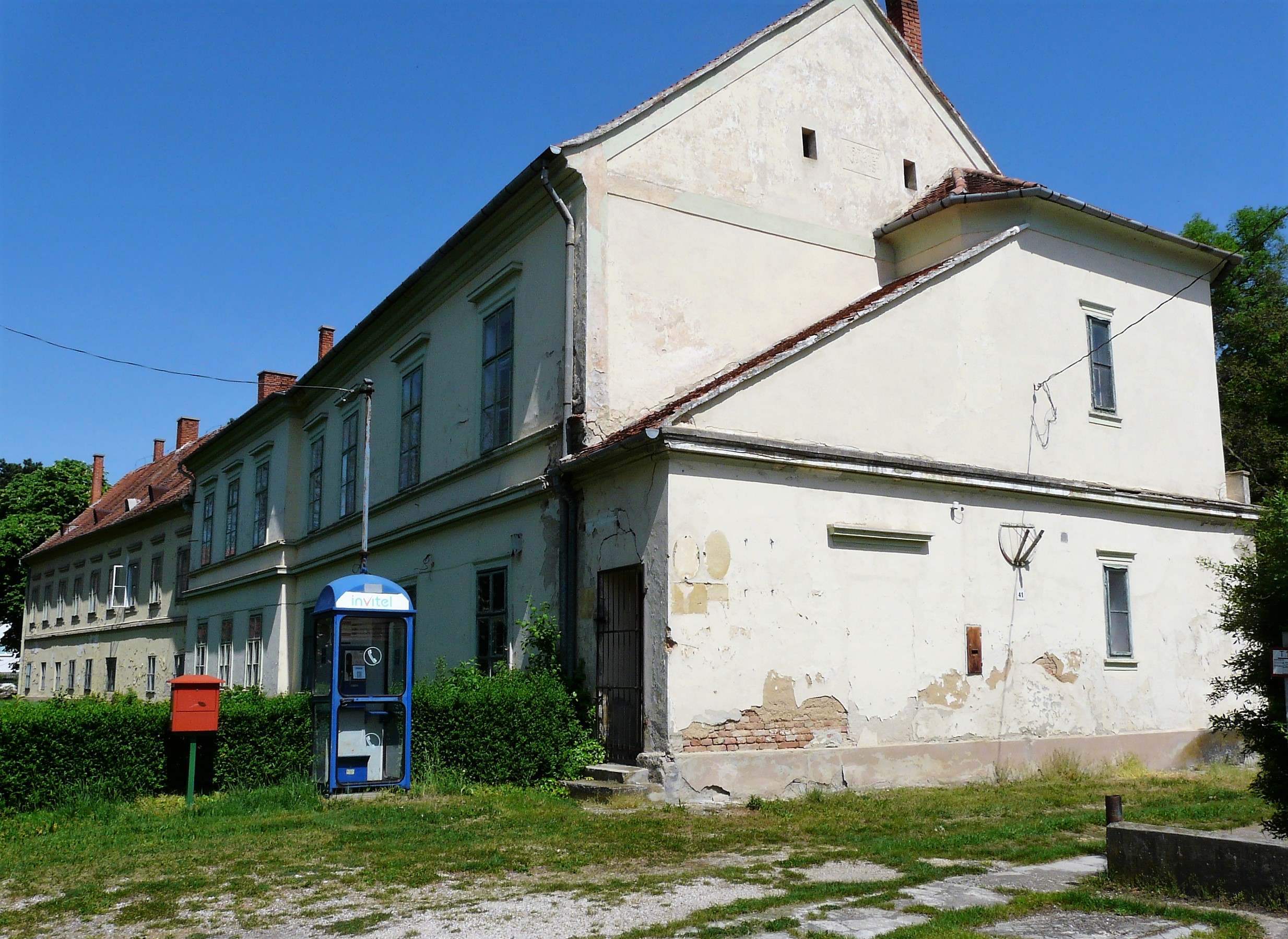 Building in village Egyházashetye (Vas County, Hungary)